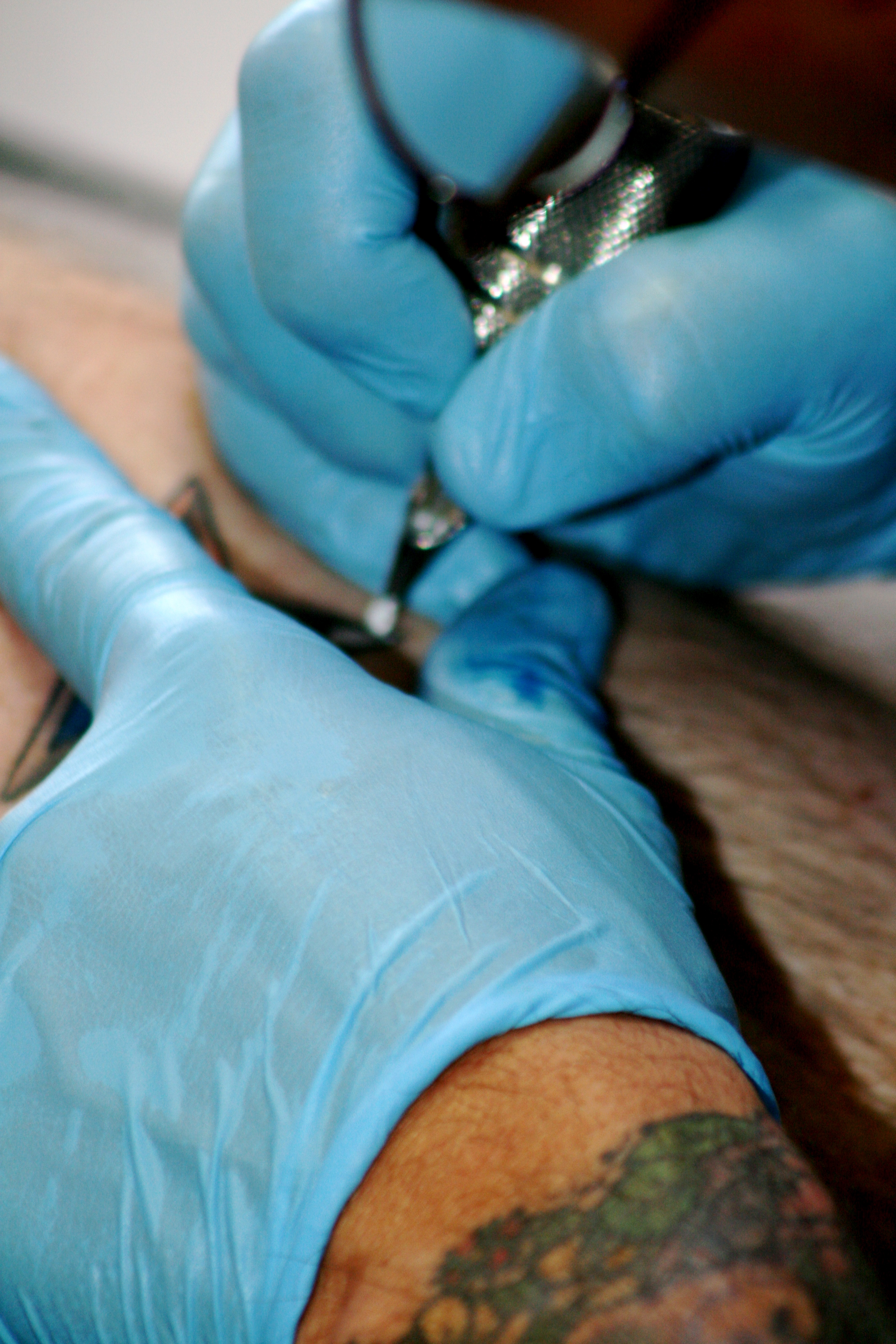 These photos are licensed under a creative commons license. feel free to use these photos on the web. when you do, list the photo credit as "giovanni gallucci / new media consultant" and link the credit to (cc) 2007 giovanni gallucci